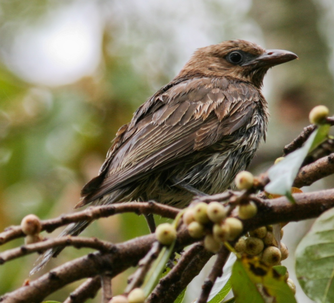 Sphecotheres vieilloti, Brisbane.